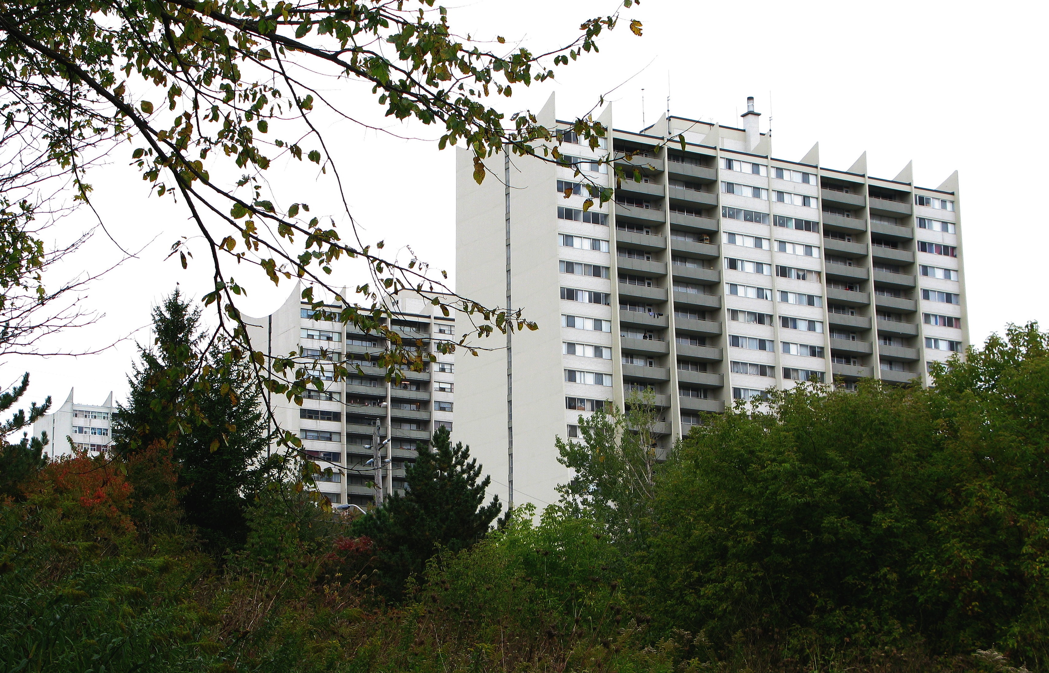 Jane-Exbury Towers by architect Uno Prii, completed in 1969. Located in Toronto, Ontario, Canada.